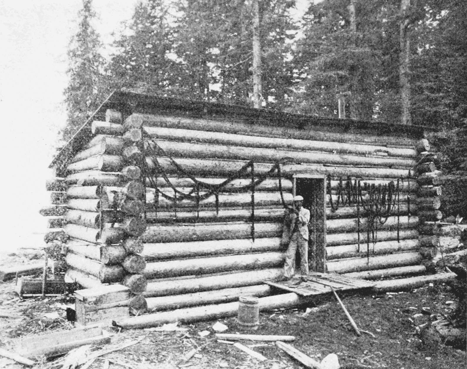 Egregia and nereocytis algae draped over the logs